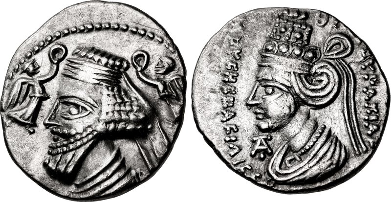 Drachm of Phraates V and his mother Musa, Ecbatana mint.